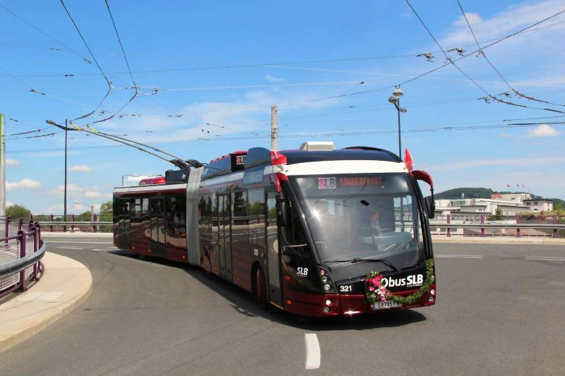 Solaris Trollino 18 Tram-Look trolleybus (#321, reg. S-195 PW, built 2012) in Salzburg, Austria. Salzburg AG operator.